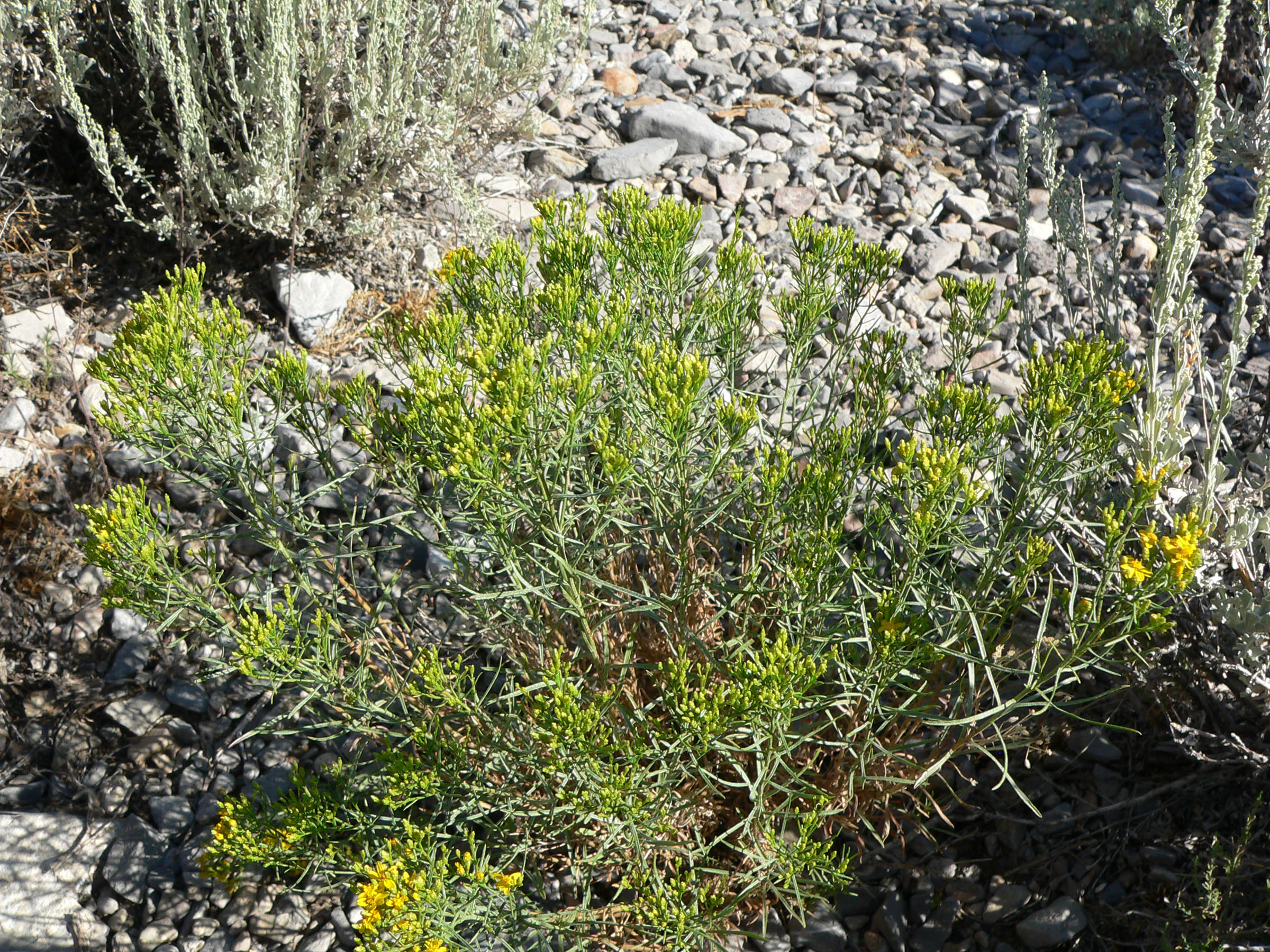 Gutierrezia sarothrae alongside the Kyle Canyon Road about 4 km east of the junction with 158, Kyle Canyon, Spring Mountains, southern Nevada (elev. about 1800 m)